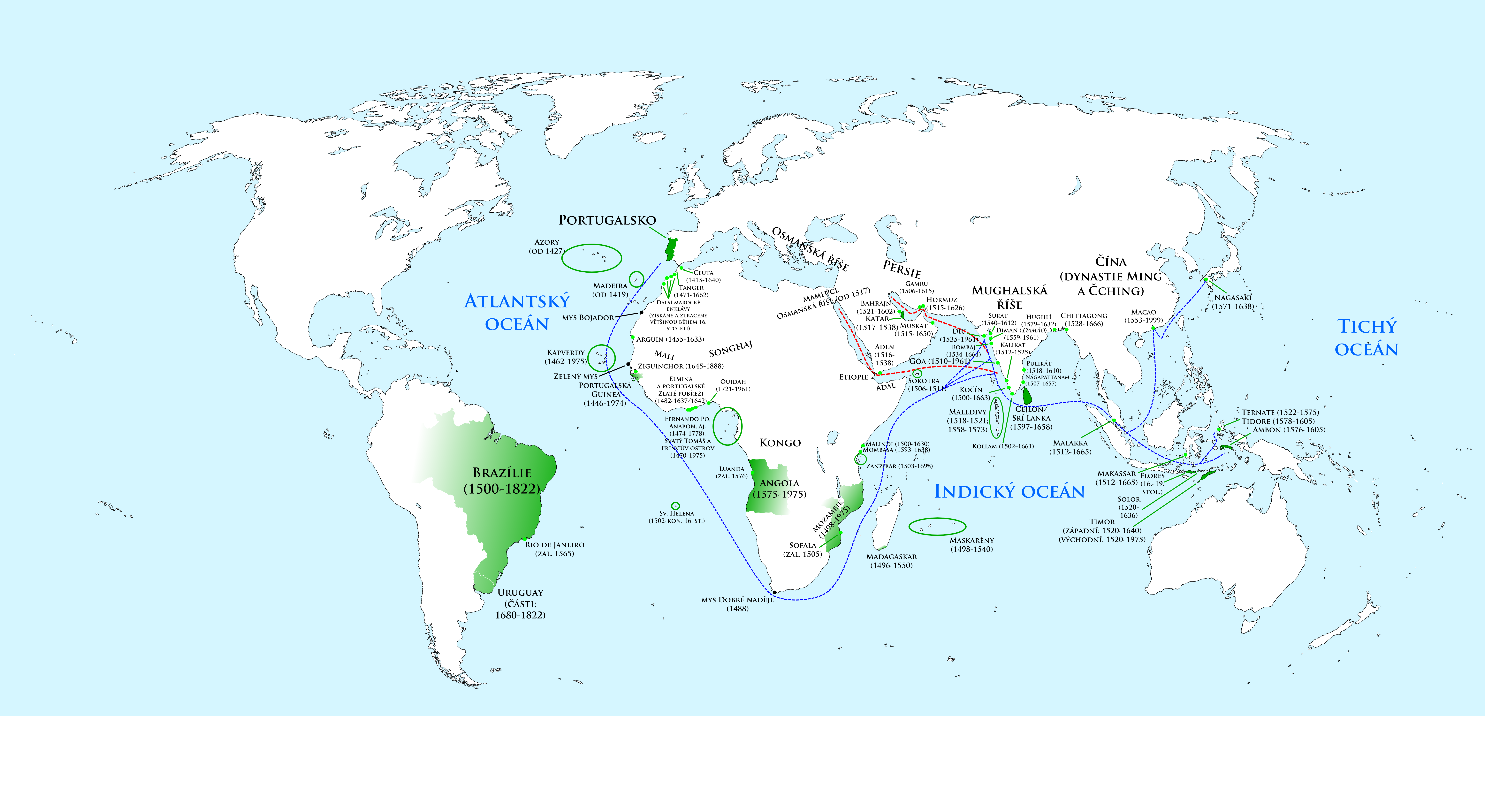 Anachronic map of the Portuguese Colonies with descriptions in the Czech language.